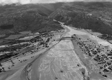 An aerial view of the lahar resulting from the 1985 eruption of Colombian stratovolcano Nevado del Ruiz.